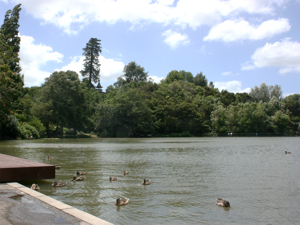 Sunny day at the Hamilton Gardens